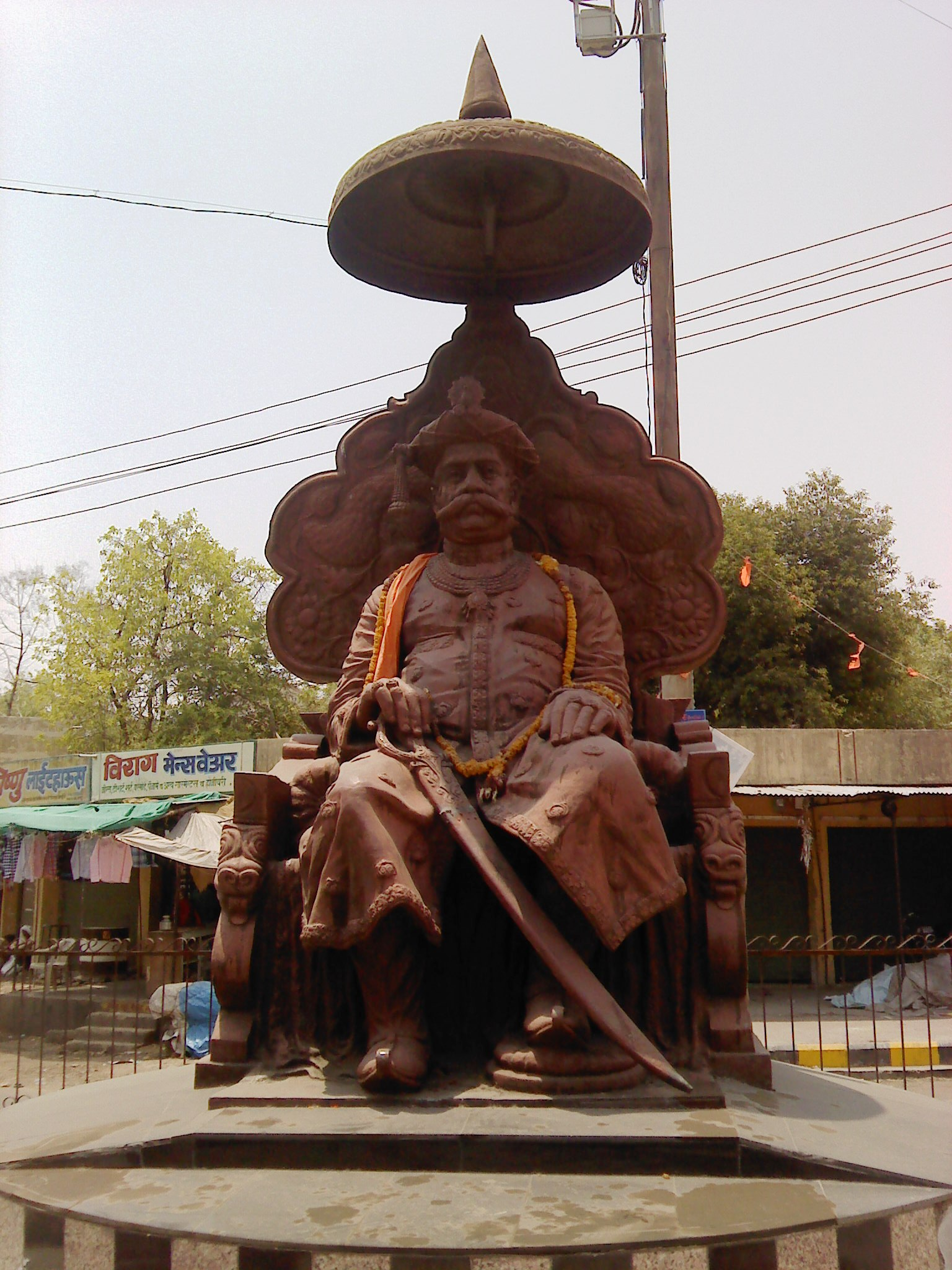 Statue of Raghuji Raje Bhonsale at Sakkardara Square, Nagpur.